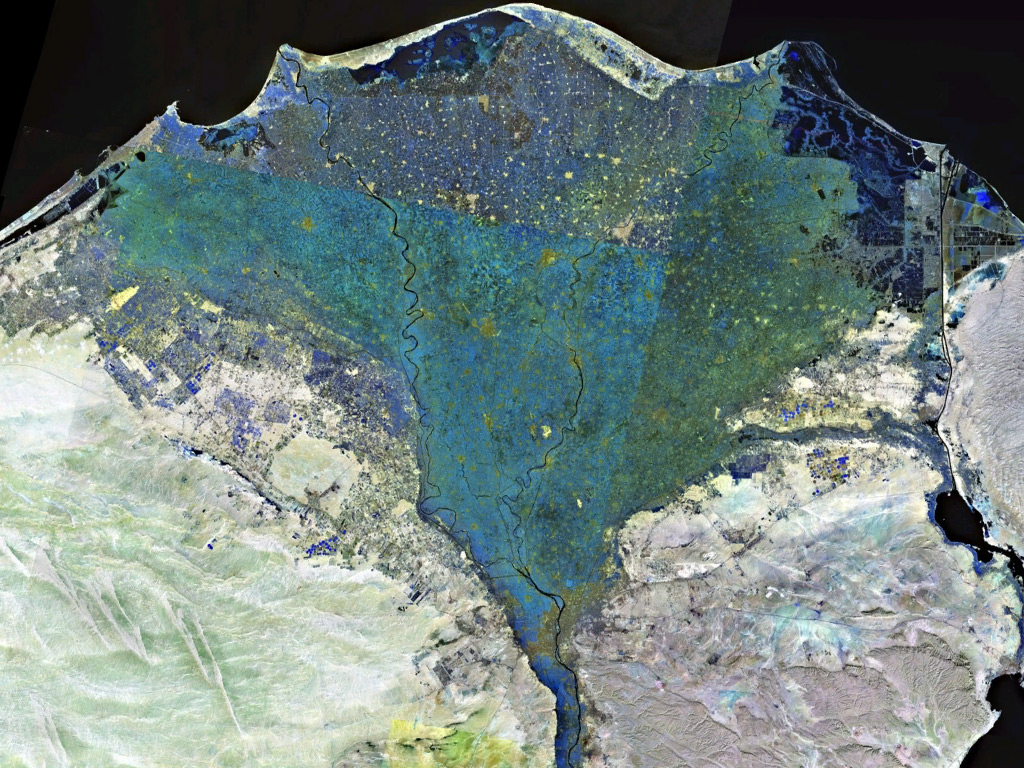 Landsat 7 false colour image of the Nile Delta